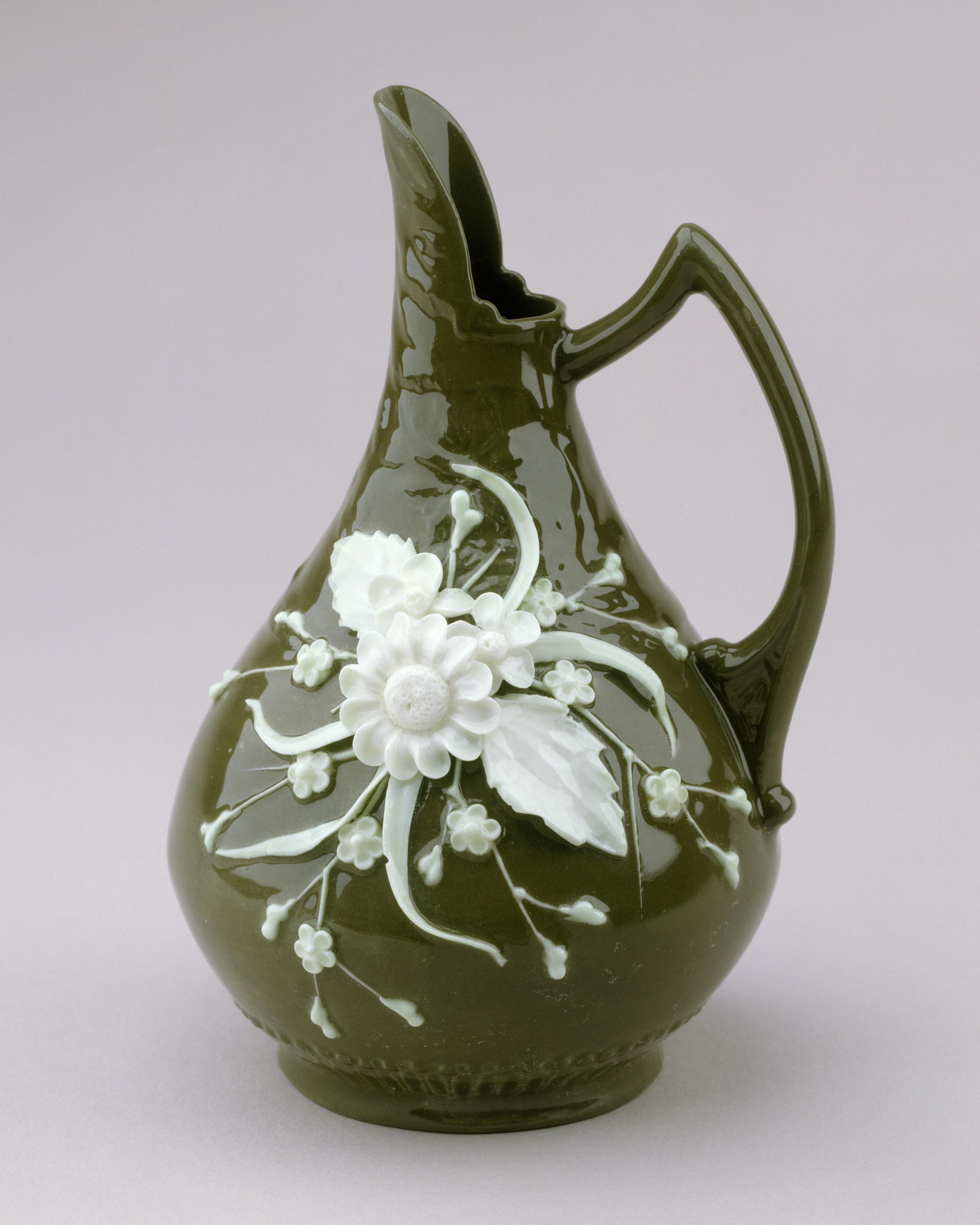 American; Pitcher; Ceramics